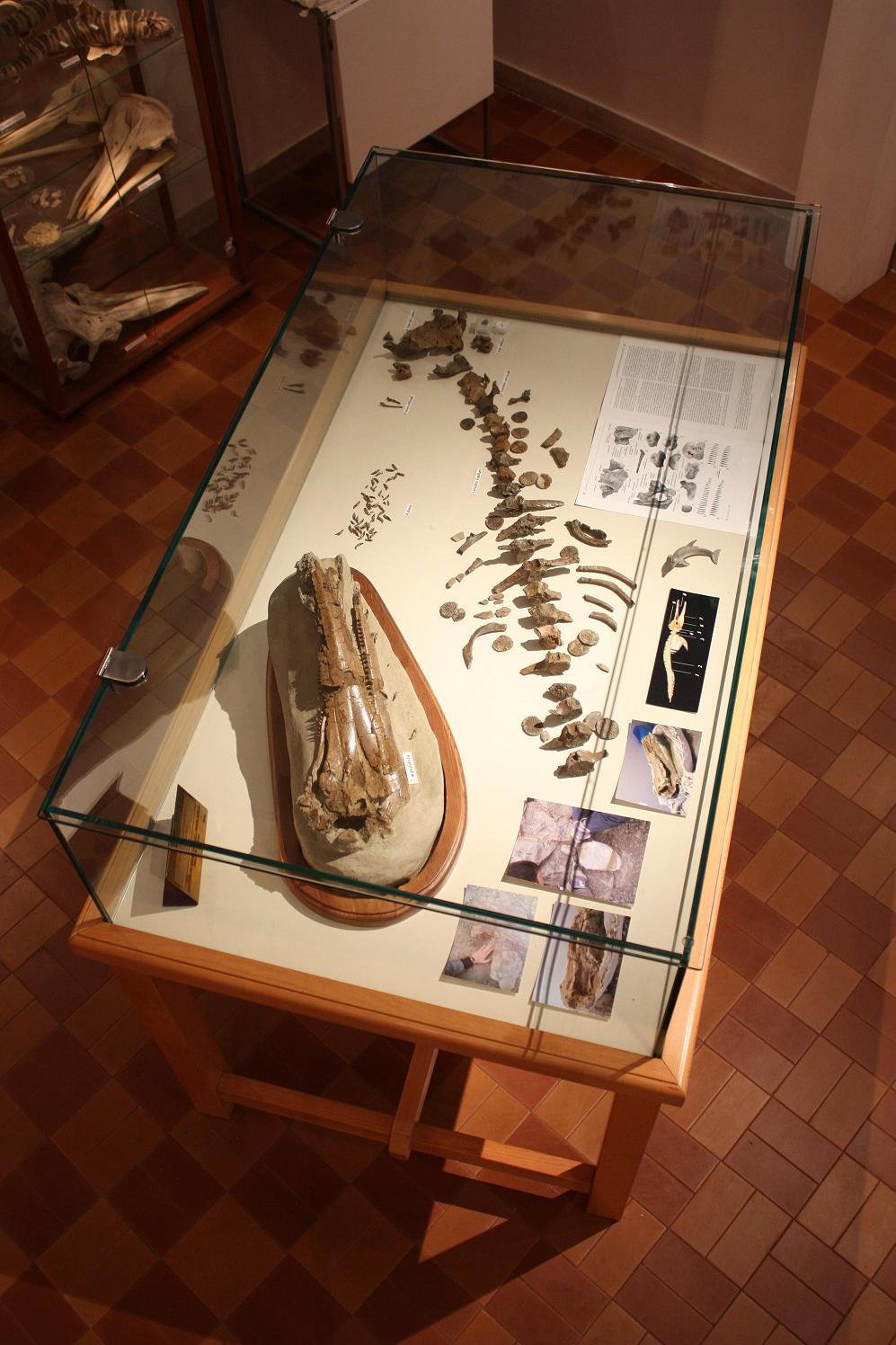 Etruridelphis giulii in Museo Geopaleontologico GAMPS (Tuscany, Italy)